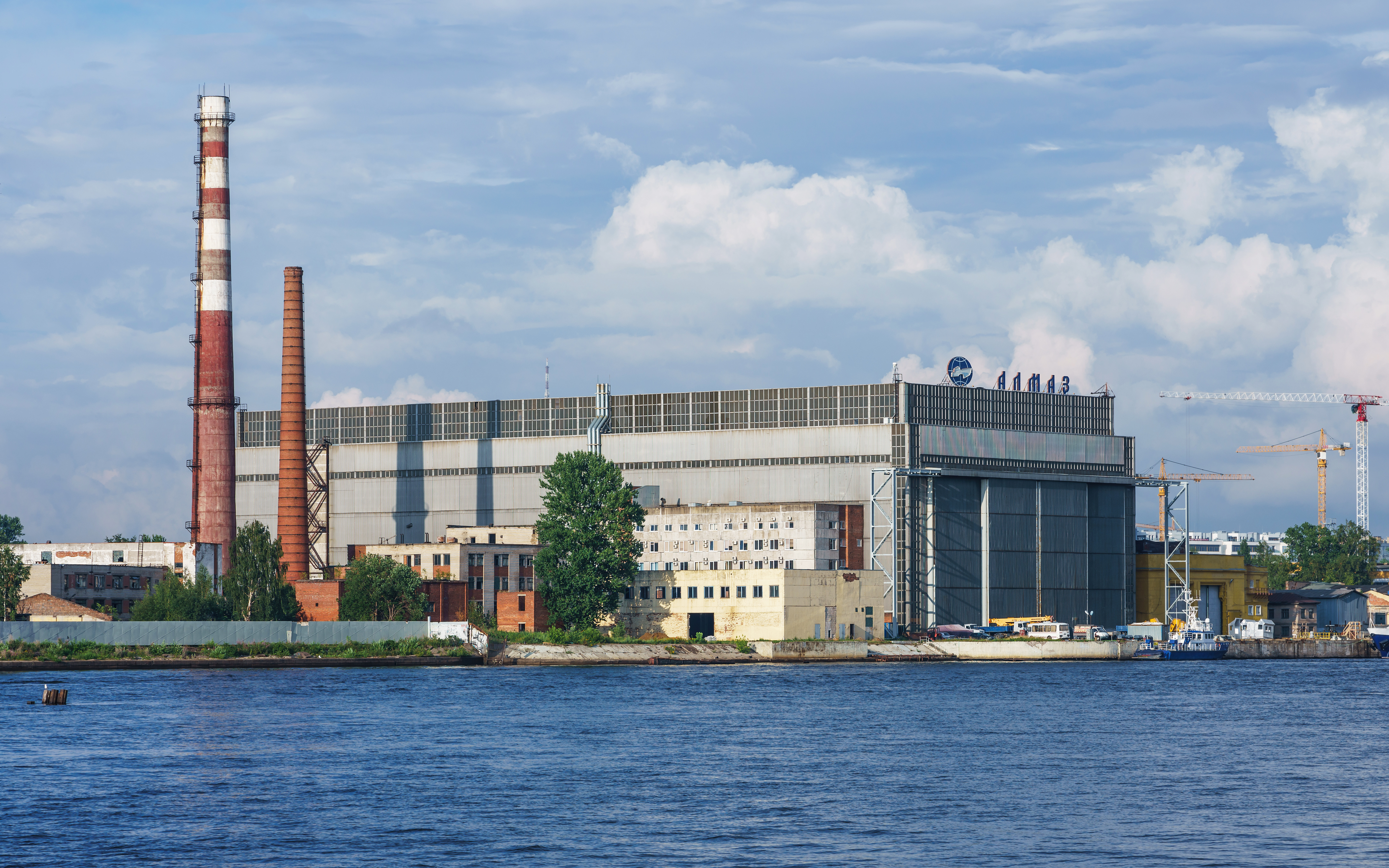 View of Almaz Shipyard in Saint Petersburg, Russia.